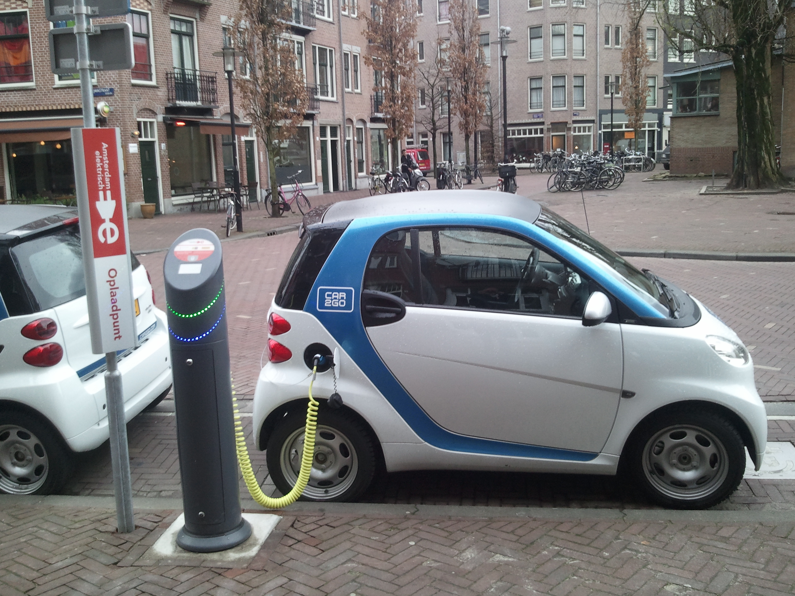 Smart fortwo electric drive charging in Amsterdam